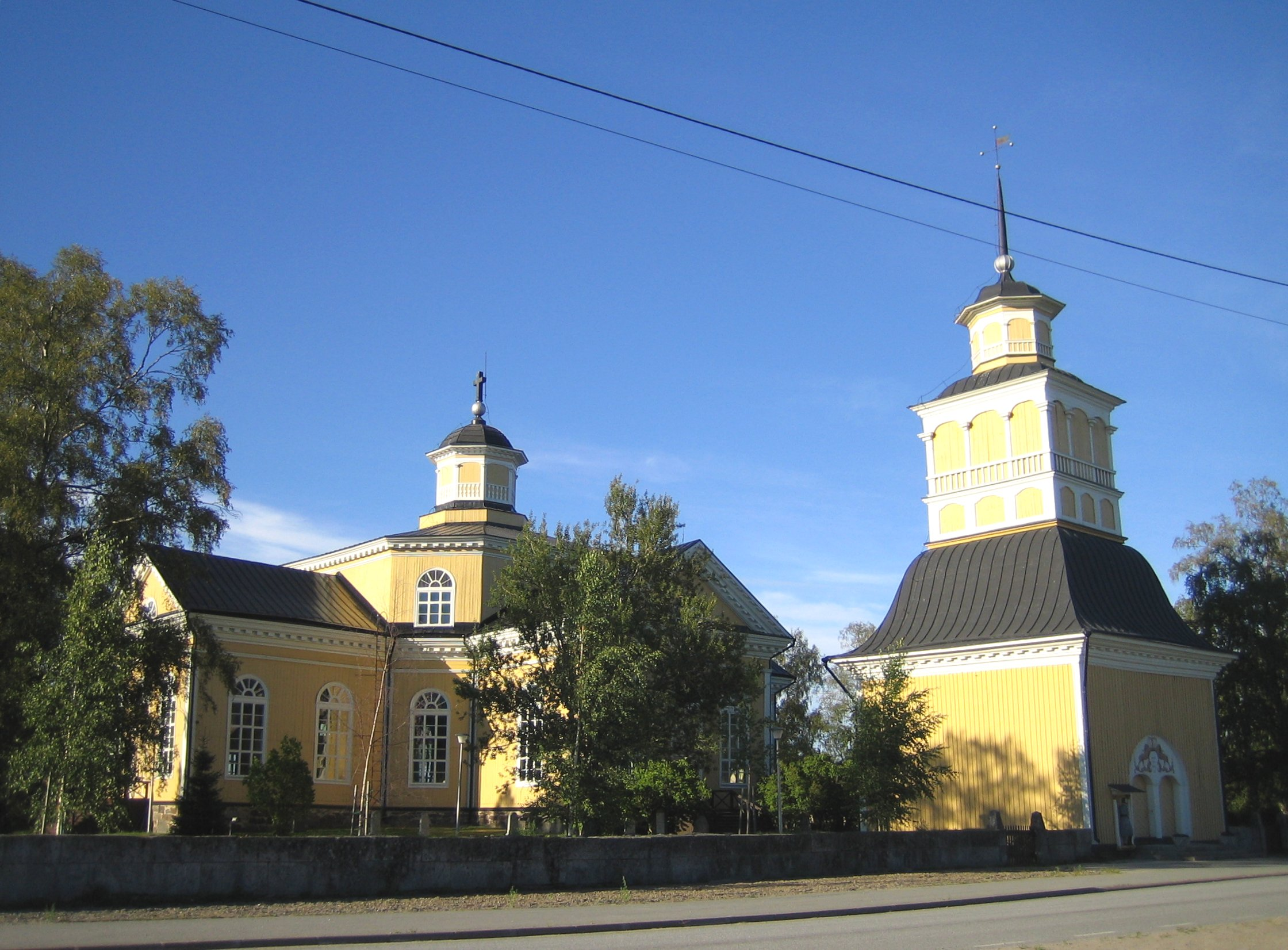 Kronoby Church in Kronoby, Finland